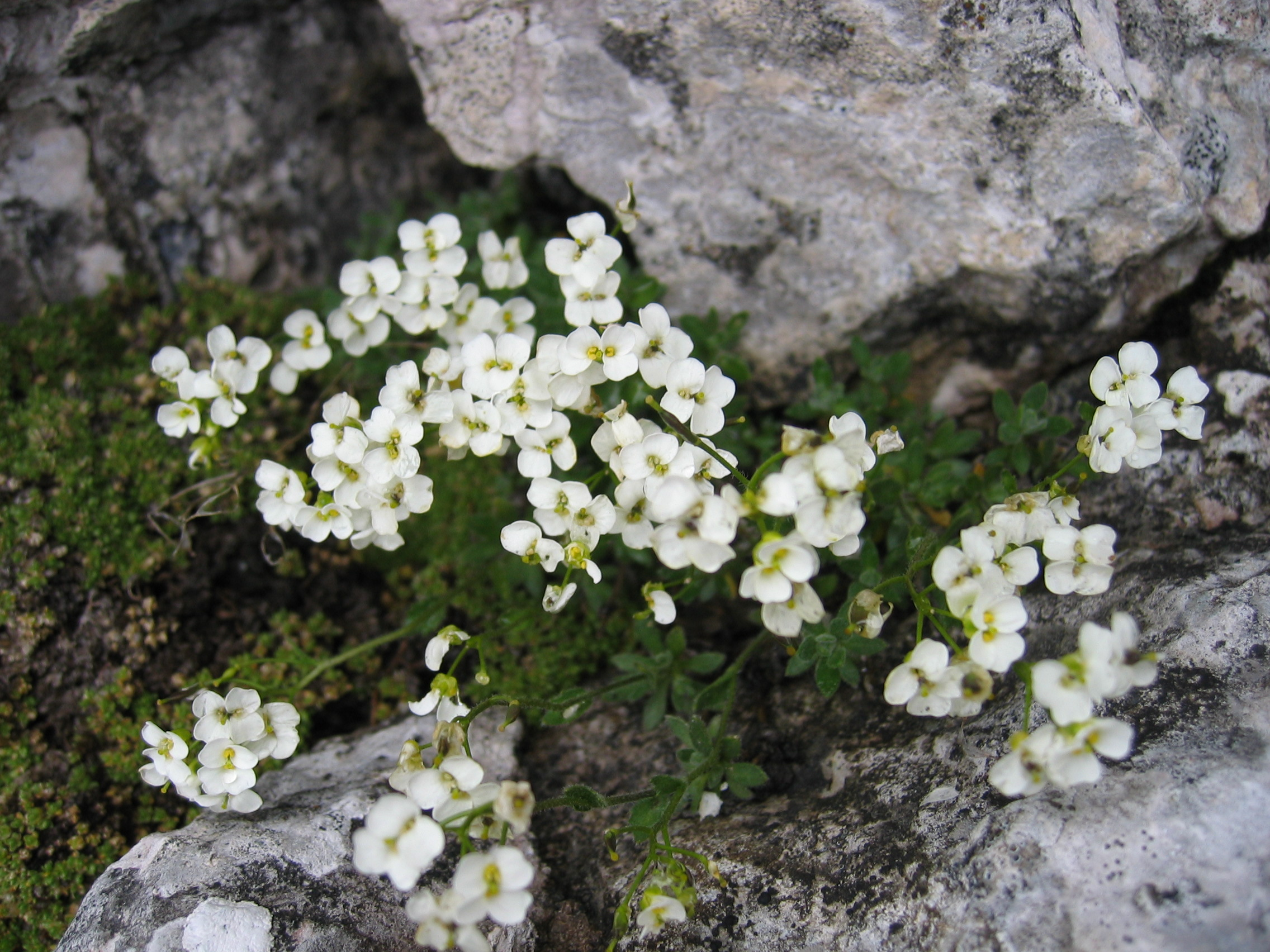 Habitat: Warscheneck, Upper Austria, Austria